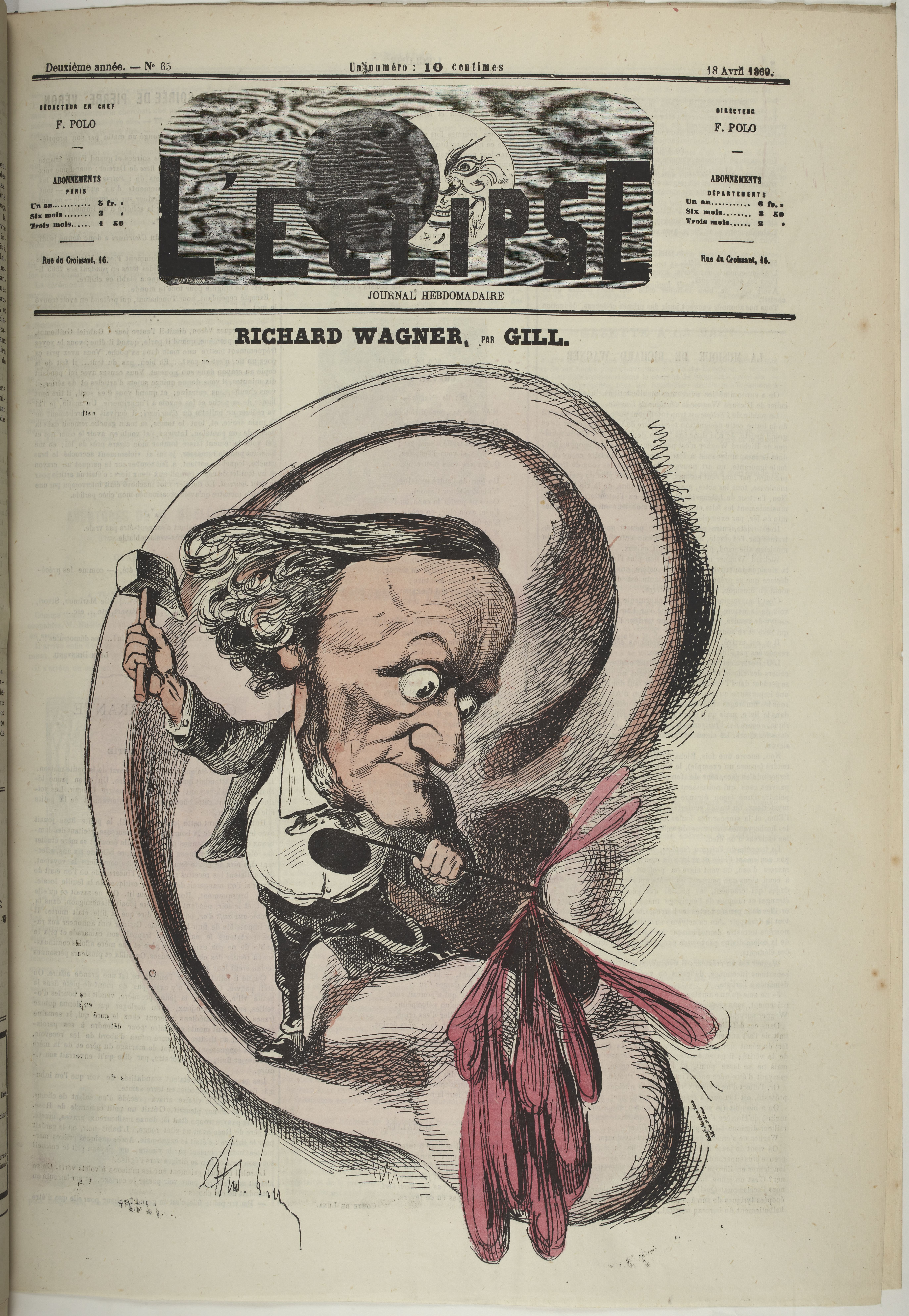 Caricature of Richard Wagner Cover of L'Eclipse 18 April 1869 Hand-colored Engraving 12"w x 18"h